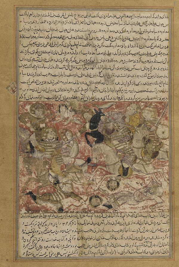 Folio from a Tarikhnama (Book of history) by Balami